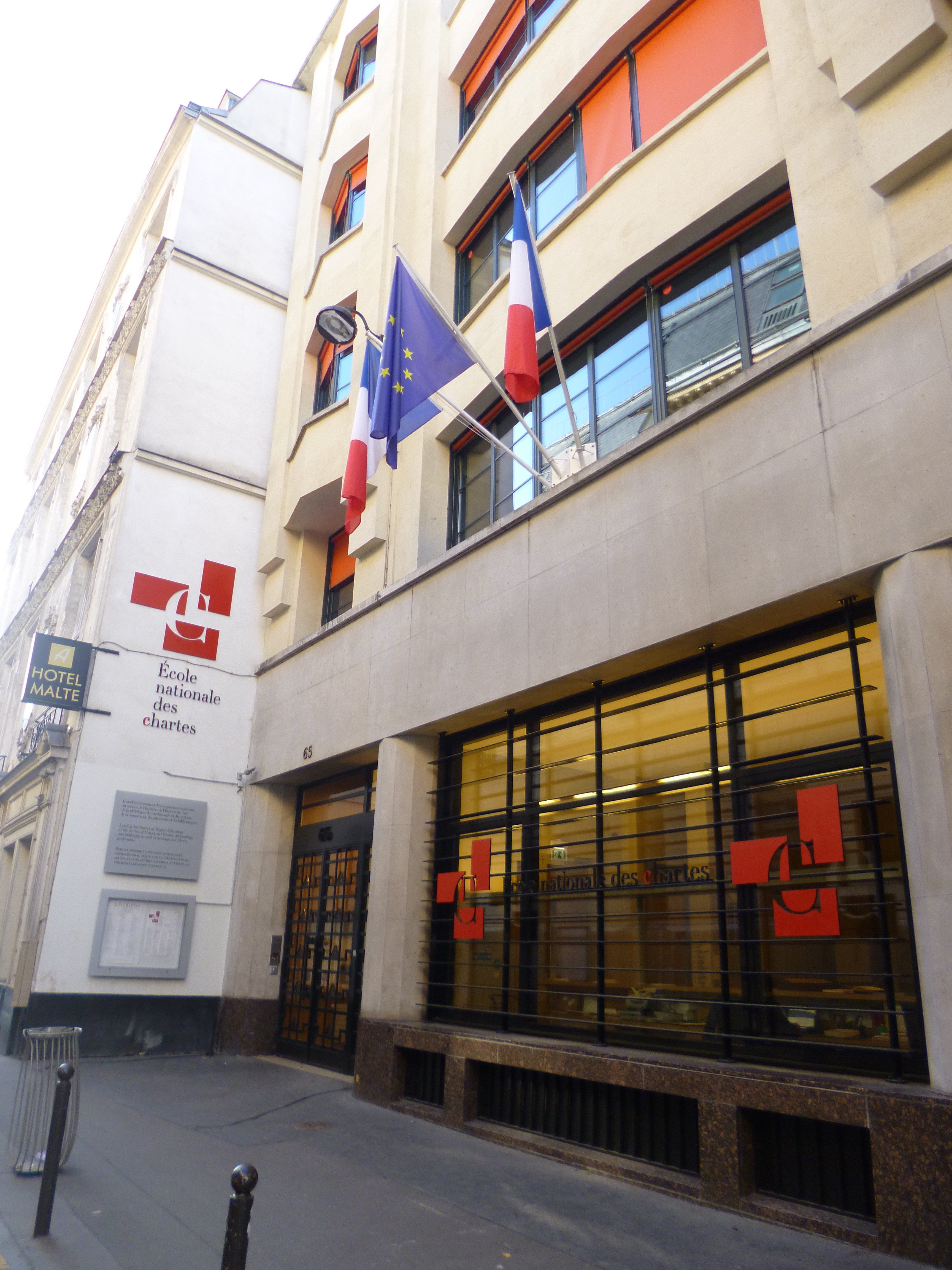 Ecole Nationale des Chartes, 65, rue de Richelieu, Paris, France.